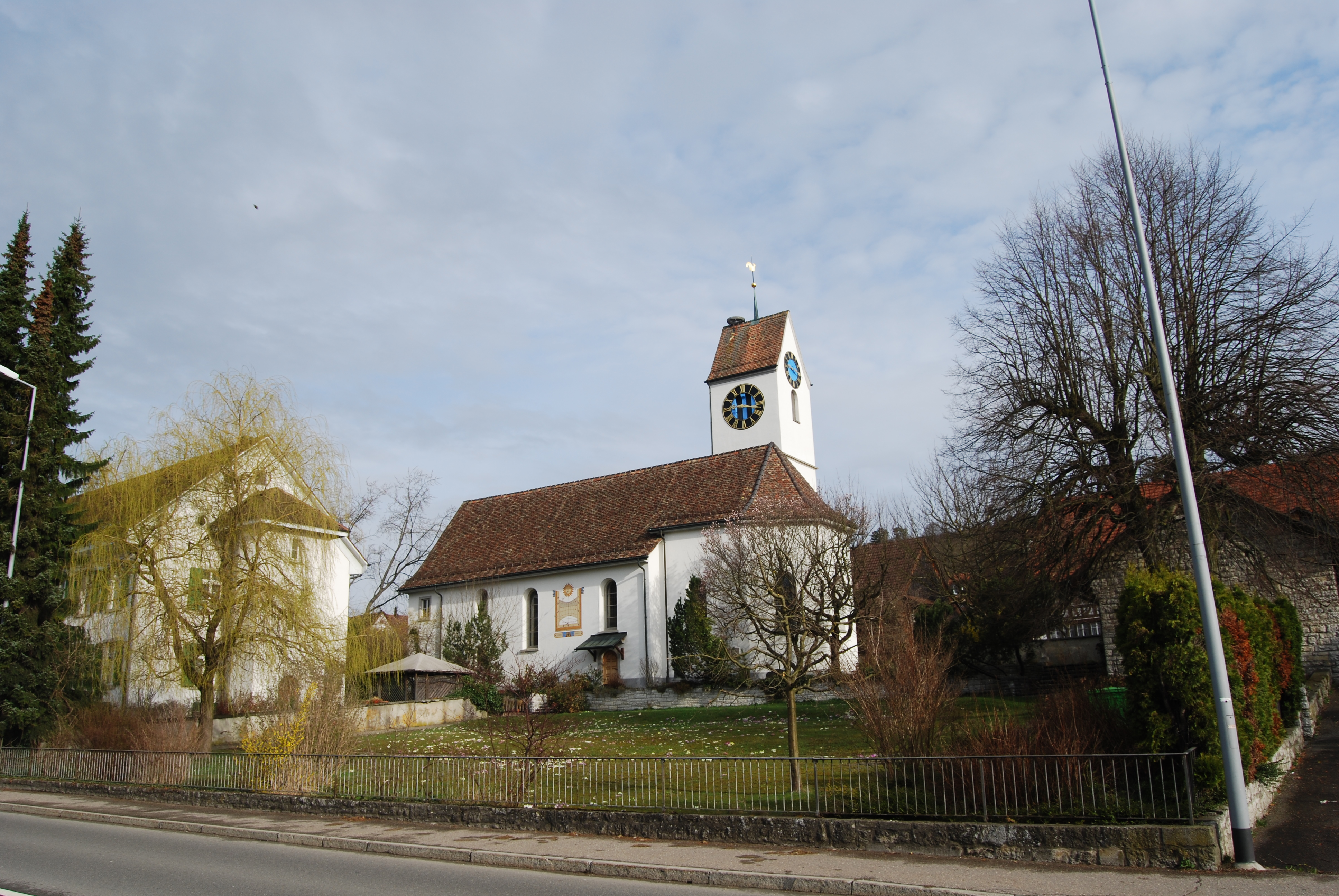 Church of Schöfflisdorf, canton of Zürich, SwitzerlandEsperanto: Preĝejo de Schöfflisdorf, Kantono Zuriko, Svislando